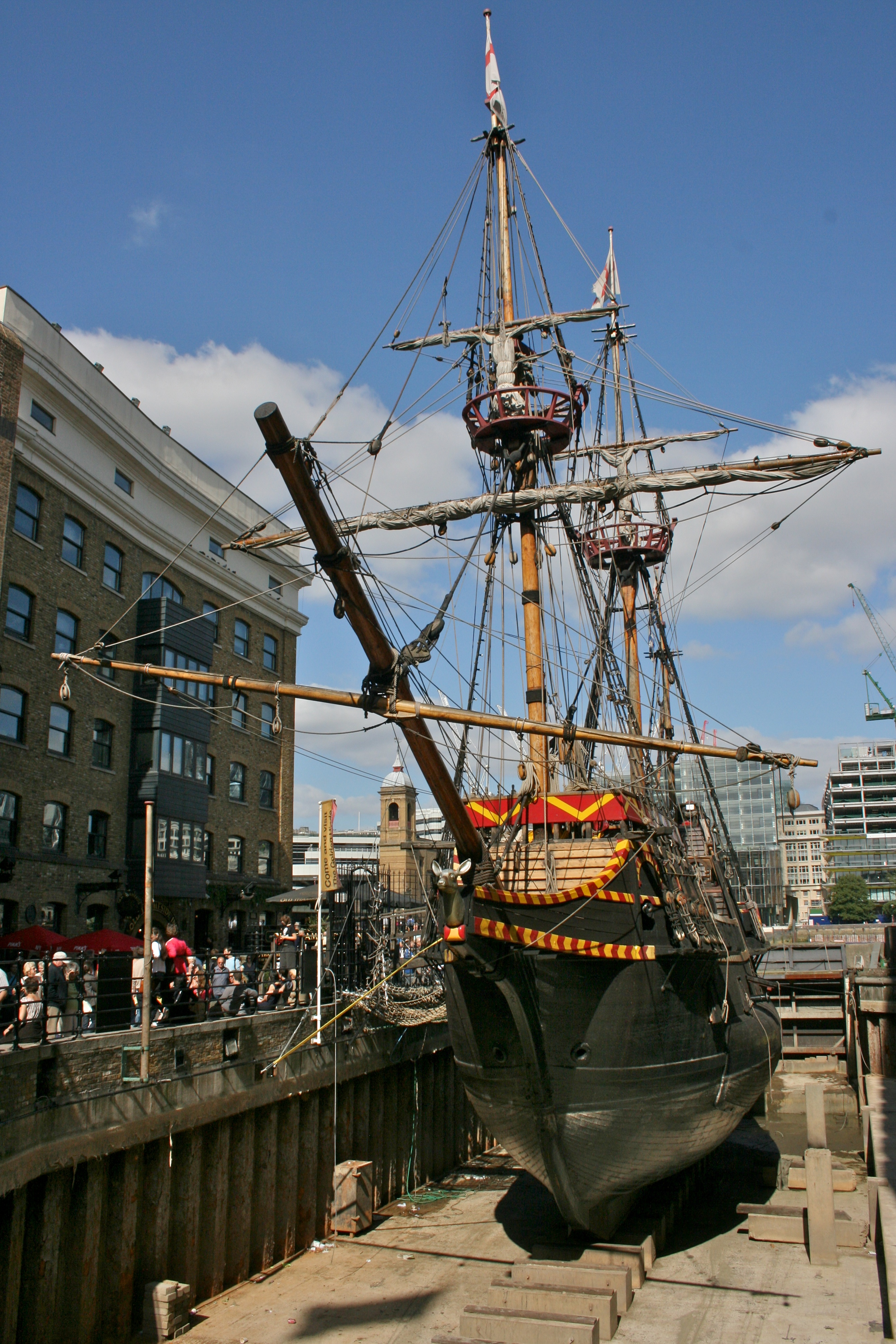 The Golden Hinde (full-sized reconstruction), London.